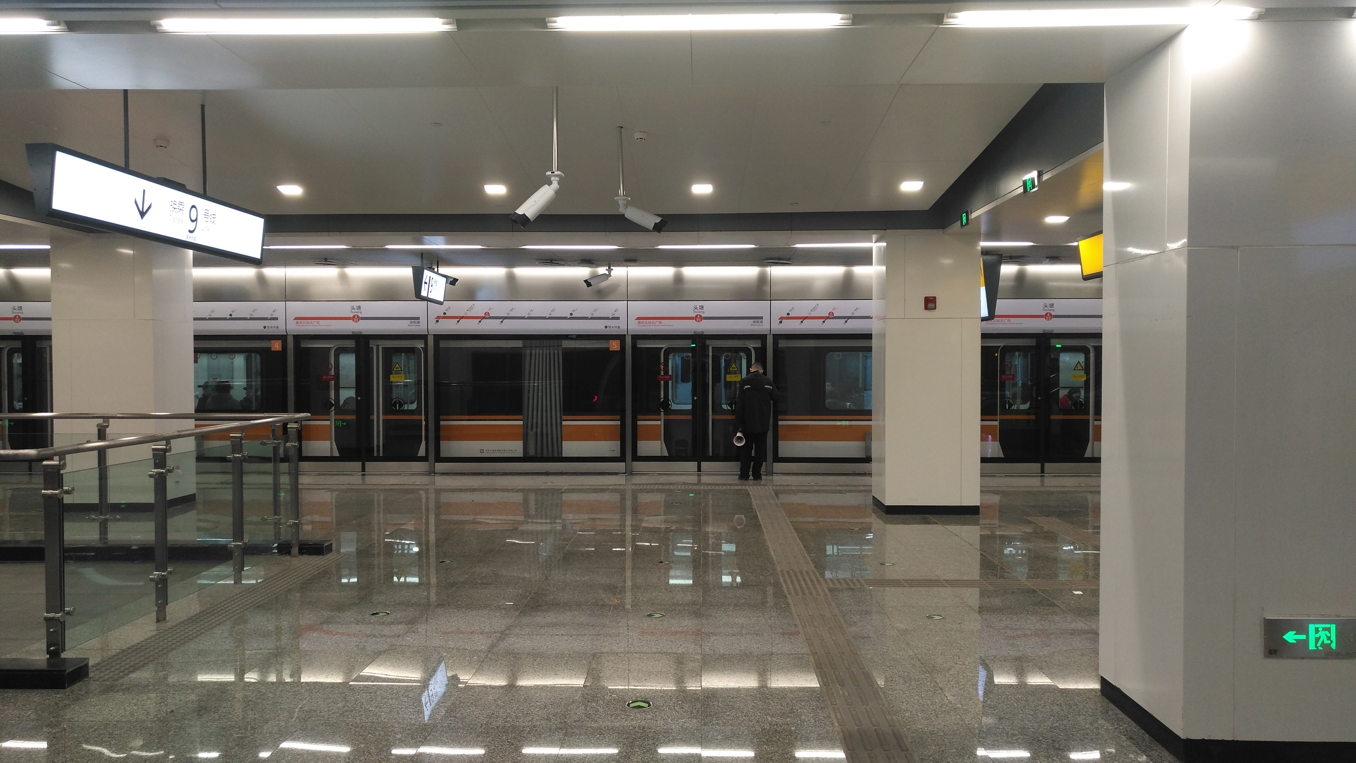 A metro station in Chongqing, China.